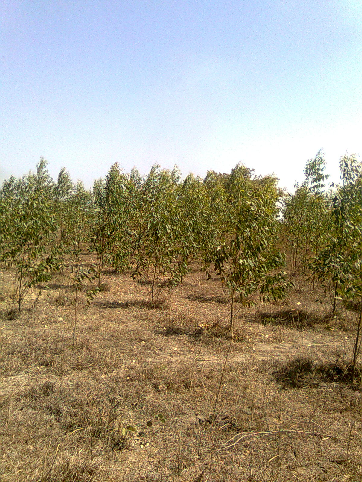 Teak plantation planted in January 2017 by Paul Malong Awan in southern Aweil